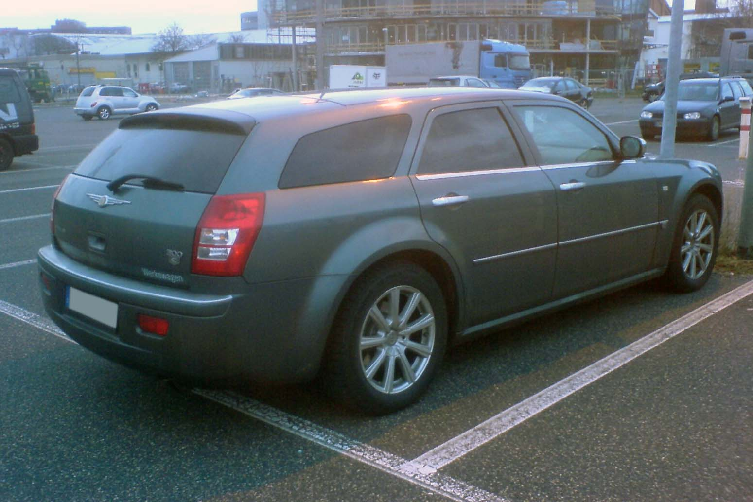 Chrysler 300C Touring